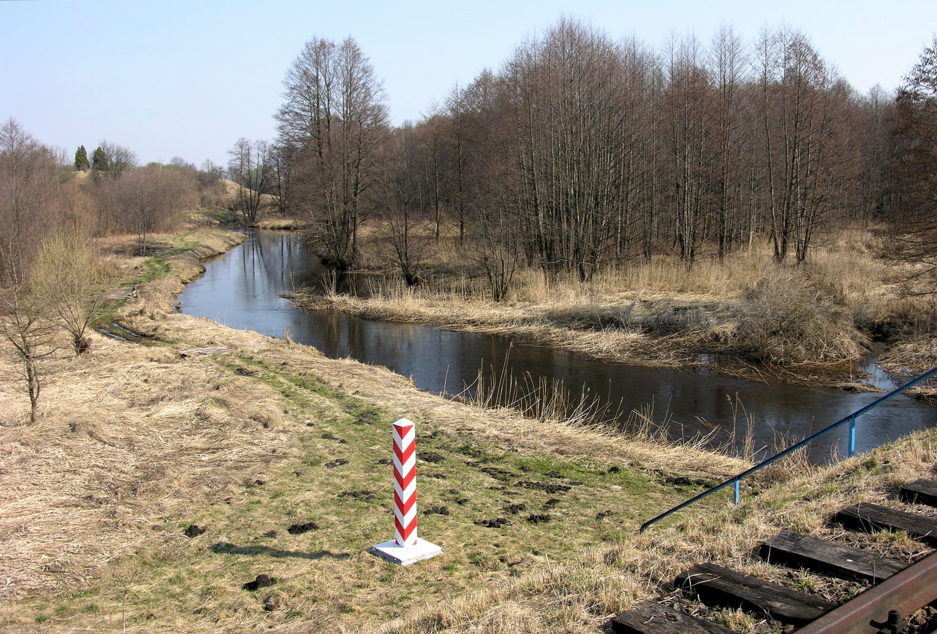 Svislach River viewed from the border railway bridge (line # 37)